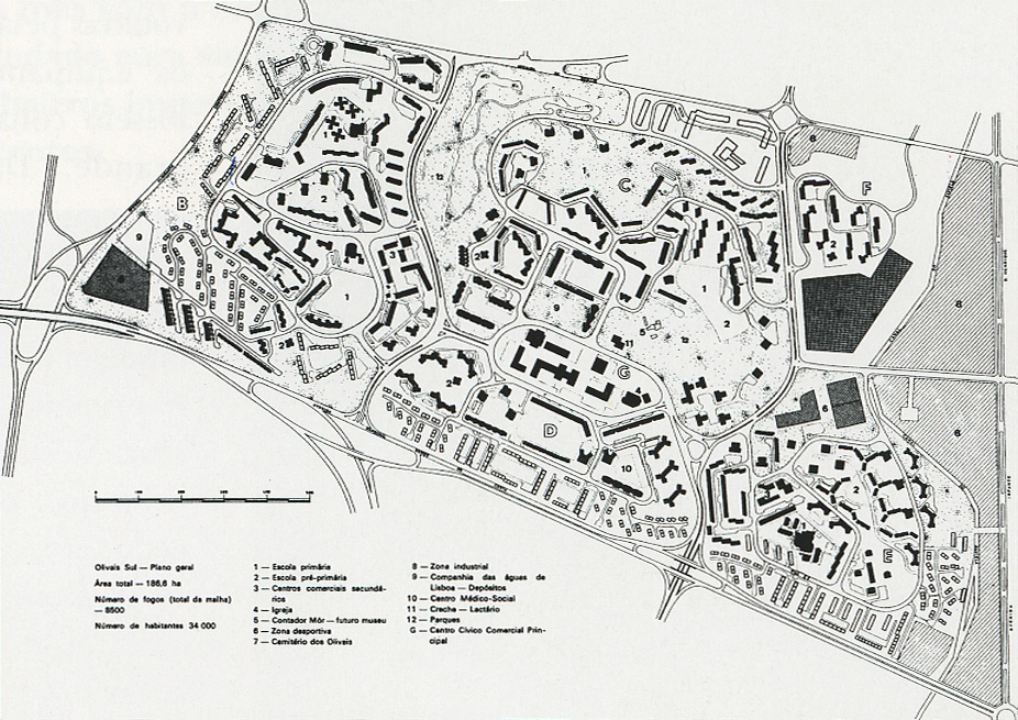 Olivais Sul Plan, 1961; Arch. José Rafael Botelho